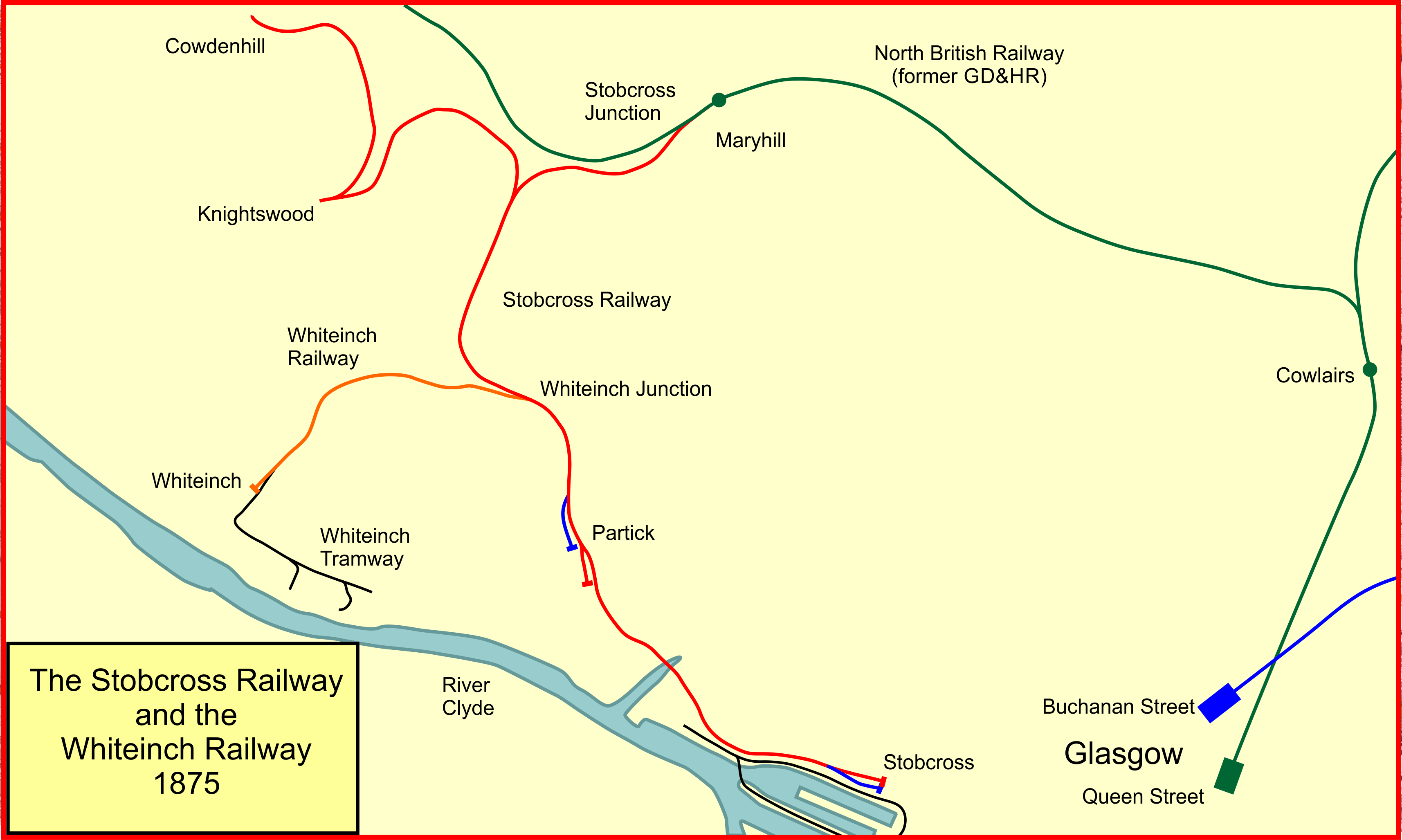 System map of the Stobcross Railway and the Whiteinch Railway in Scotland in 1875